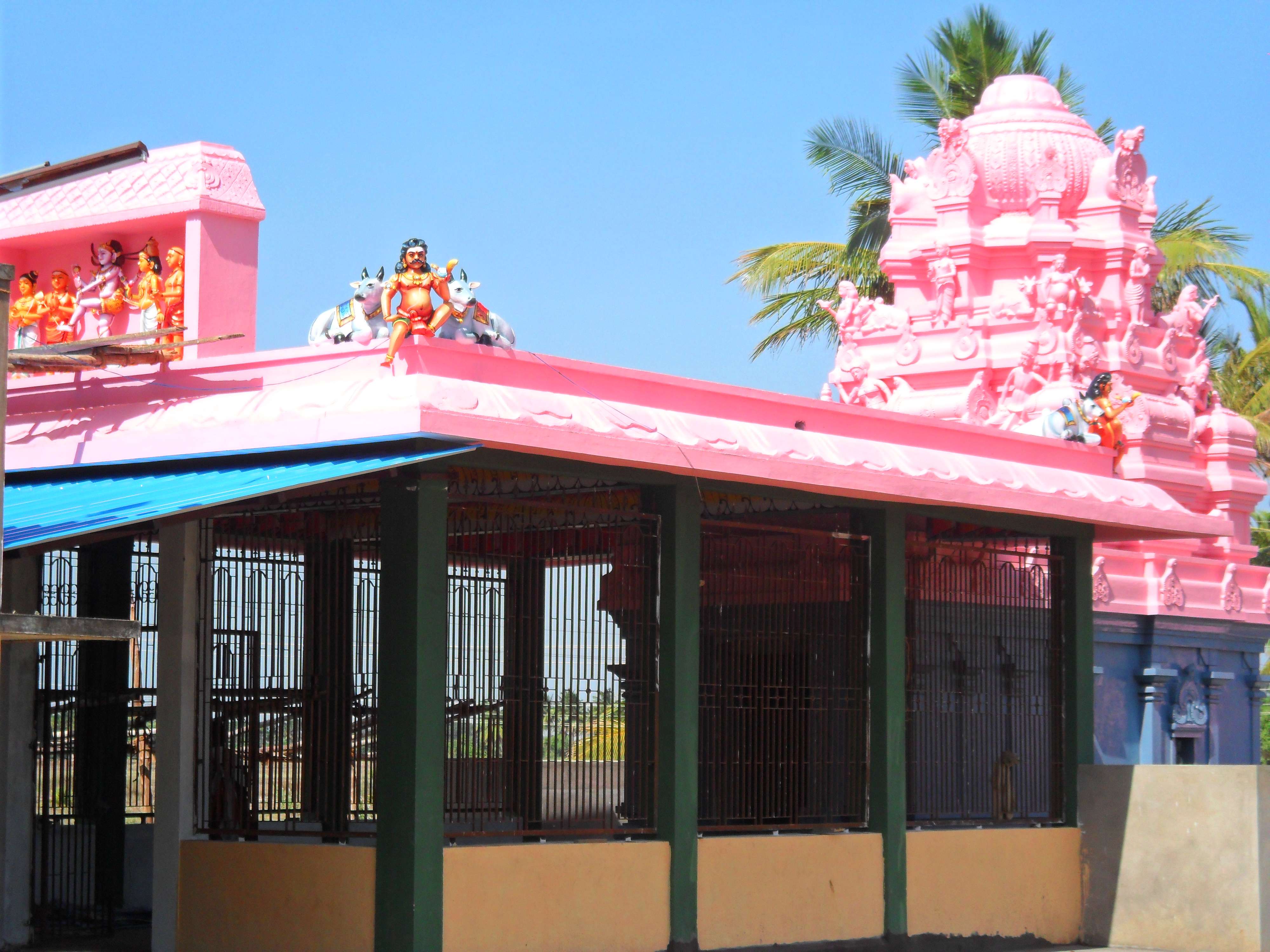 Samantha Moorthy Kovil